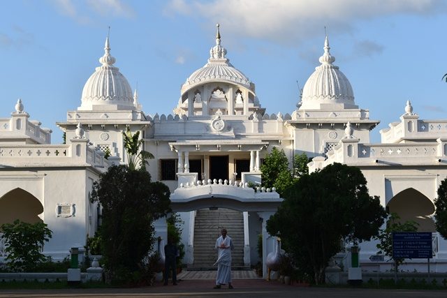 A place of Complete silence.